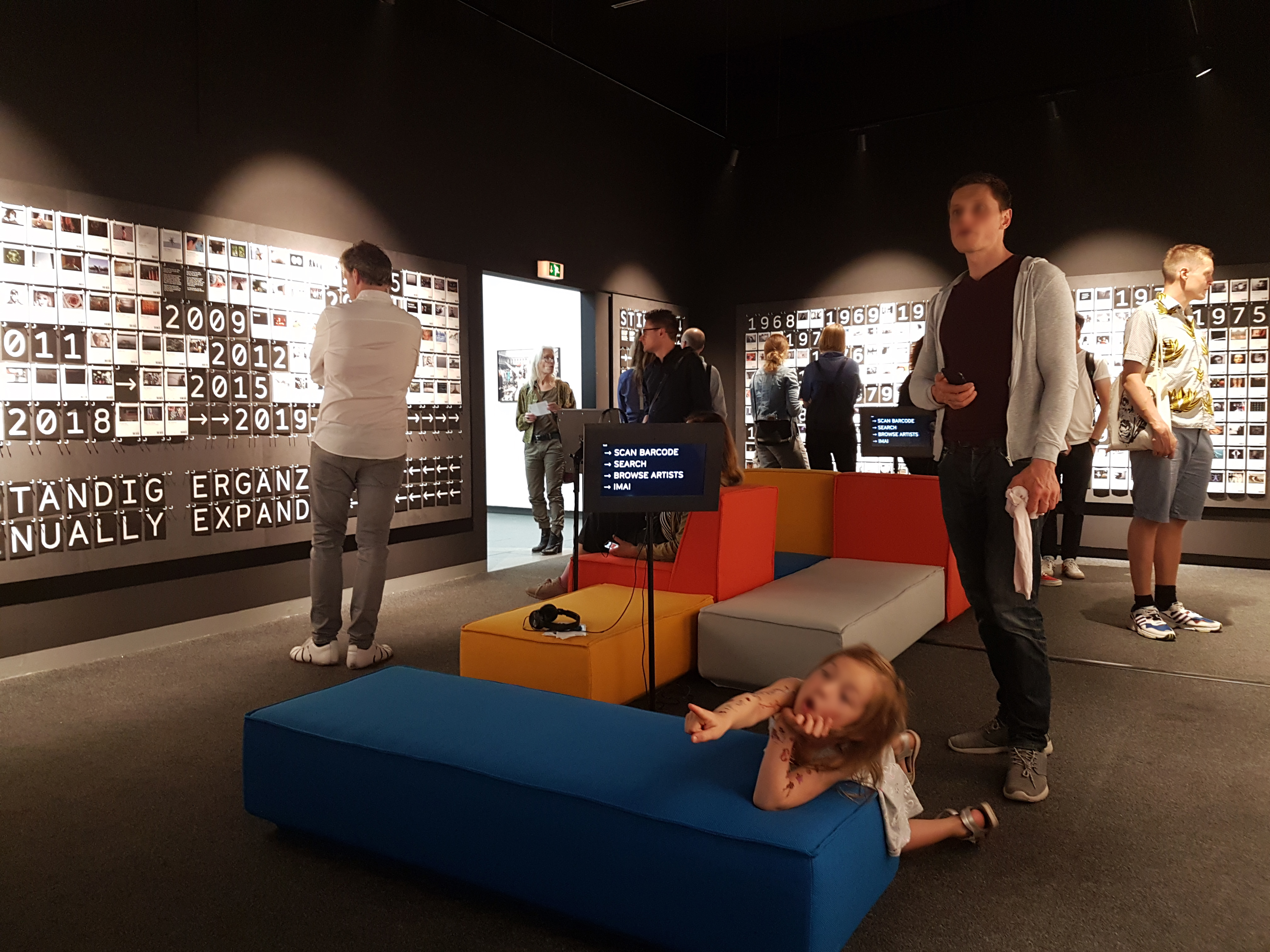 Since July 2019, the media art Foundation imai runs a permanent videolounge at the NRW Forum in Dusseldorf. About 1000 video artworks are on view. On a large projection, additional screenings are taking place.